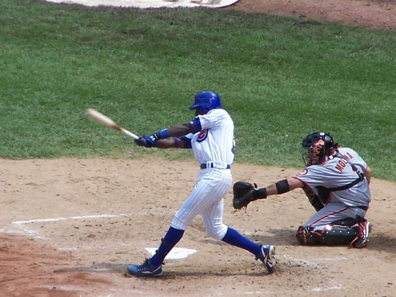 Alfonso Soriano move approved by User:Common Good100_2254